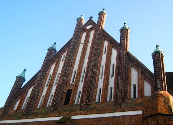 The apex of facade of chapel StMary's church in Gryfice (Poland)